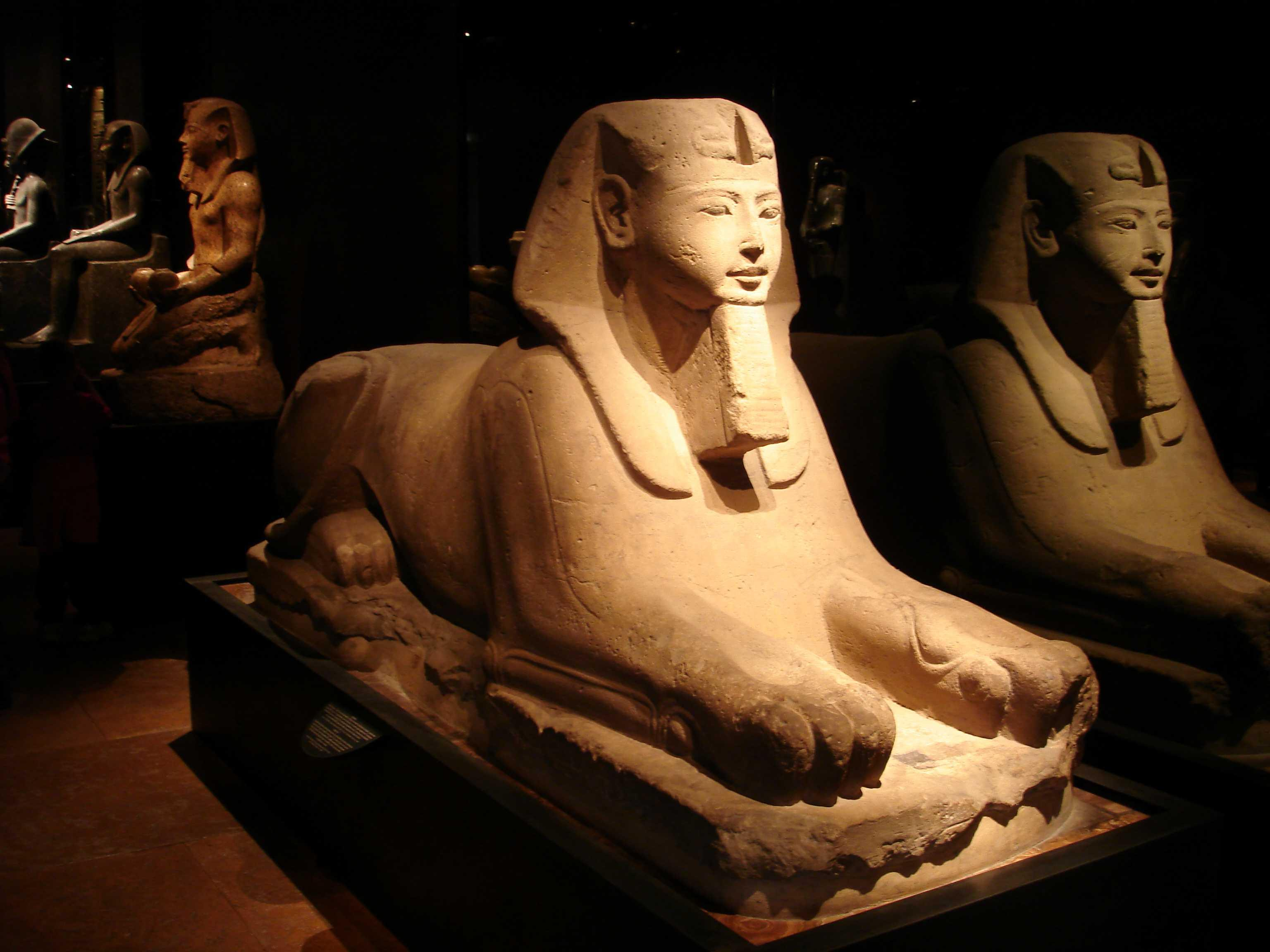 Egyptian Museum, Torino, Italy - World-class collection of Egyptian artifacts.